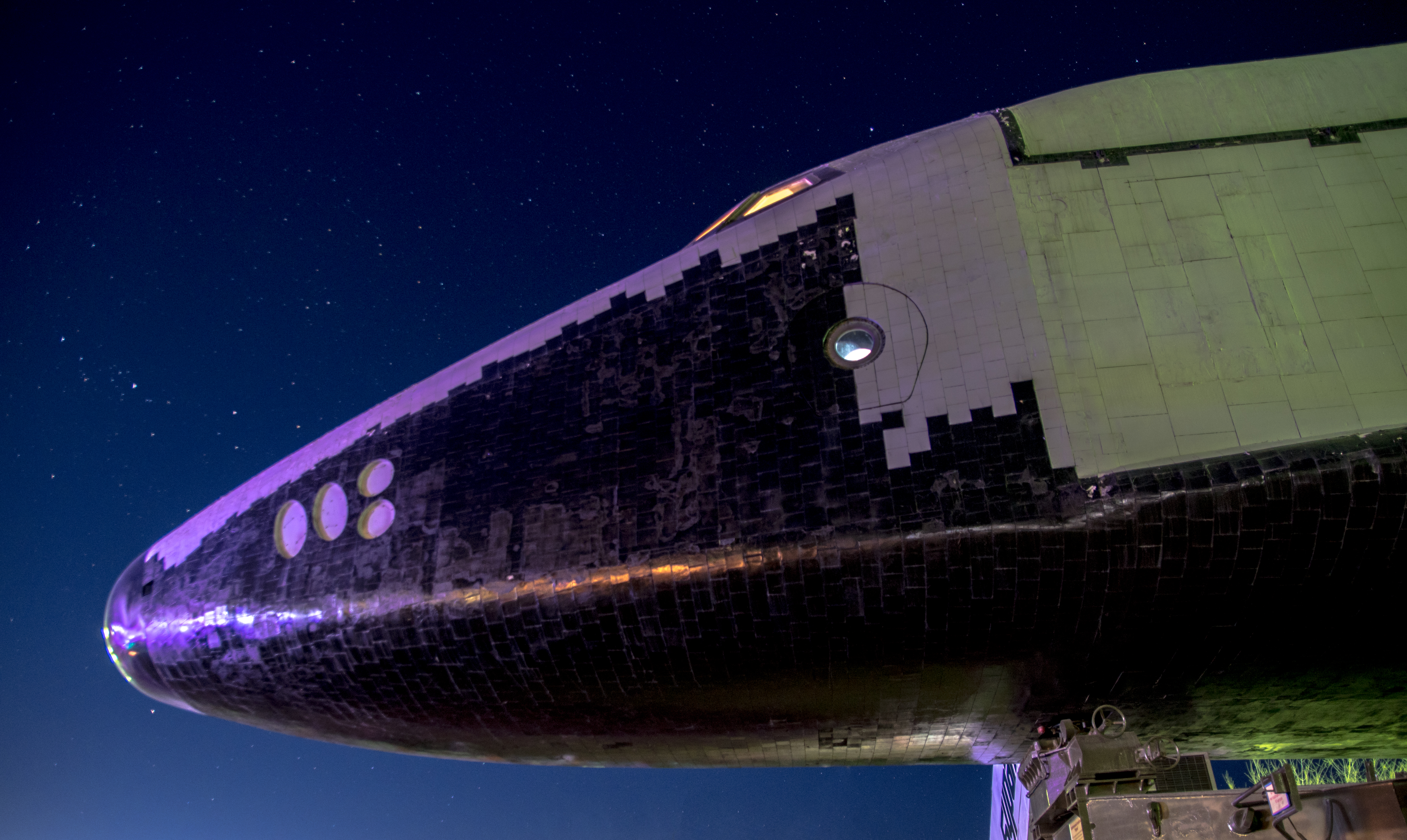 Buran is covered with heat insulating tiles that could withstand temperatures up to 1650 °C while reentering the atmosphere.